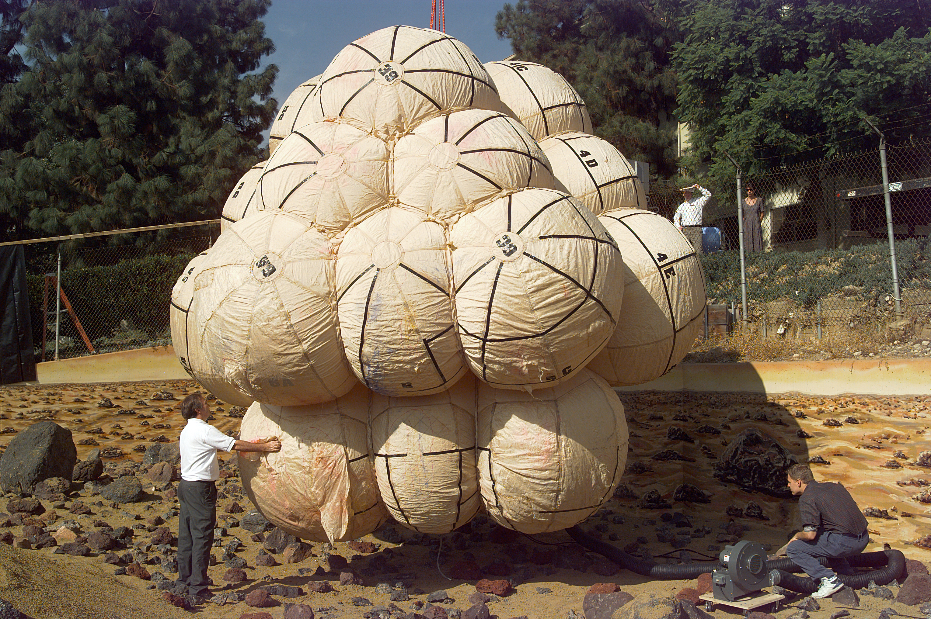 Engineers test huge, multi-lobed air bags, which will envelope and protect the Mars Pathfinder spacecraft before it impacts the surface of Mars. The air bags, manufactured by ILC Dover of Frederica, Delaware, are composed of four large bags with six smaller, interconnected spheres within each bag. The bags measure 5 meters (17 feet) tall and about 5 meters (17 feet) in diameter. As Pathfinder is descending to the Martian surface on a parachute, an onboard altimeter inside the lander will monitor its distance from the ground. The computer will inflate these large air bags about 100 meters (330 feet) above the surface of Mars. ILC Dover is the same company that manufactures spacesuits.